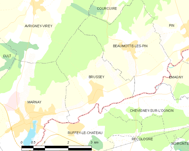 Map of French municipality